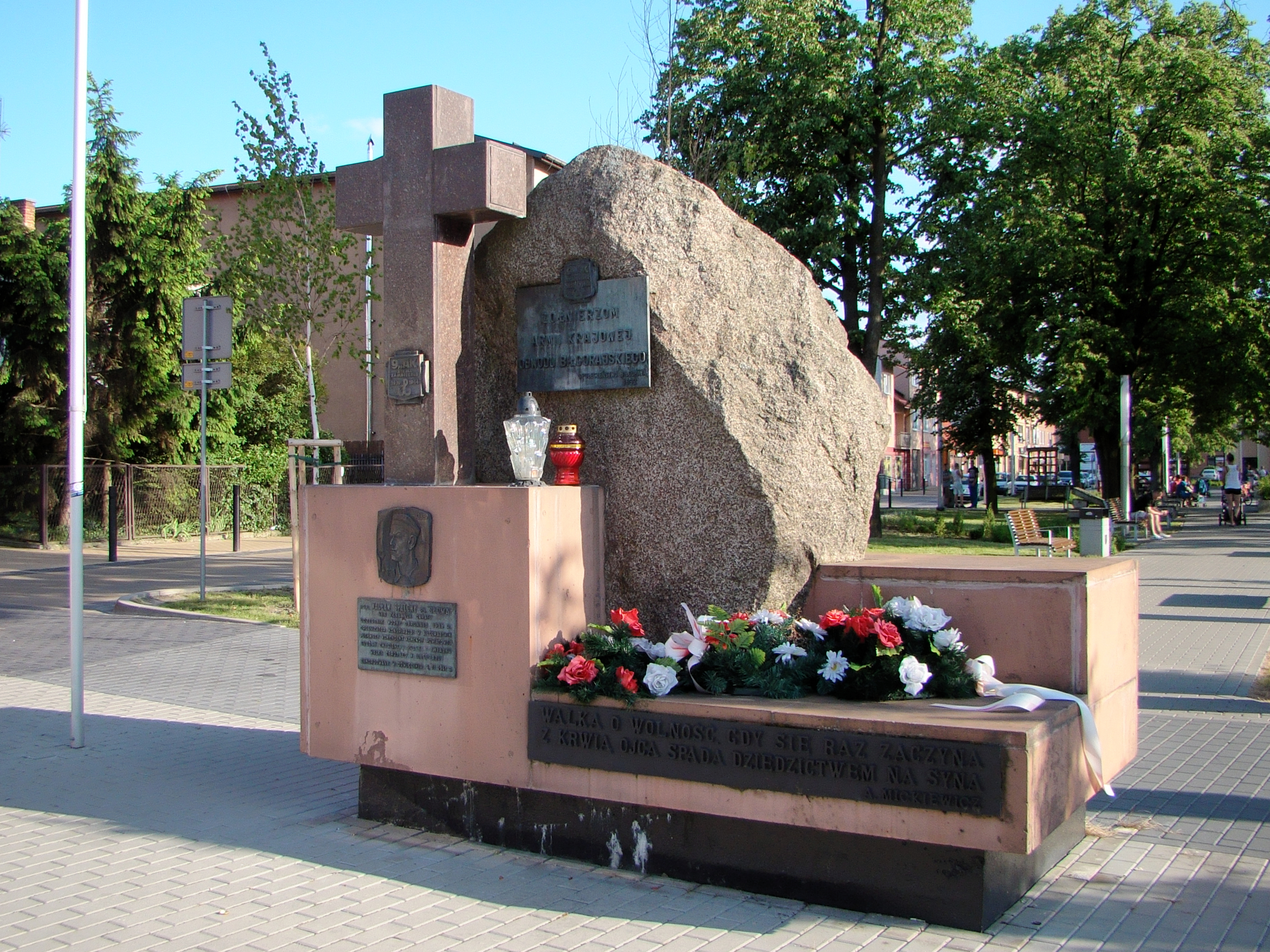 Biłgoraj - memorial to soldiers of Armia Kraków from biłgoraj district